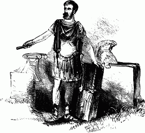 Roman Centurion